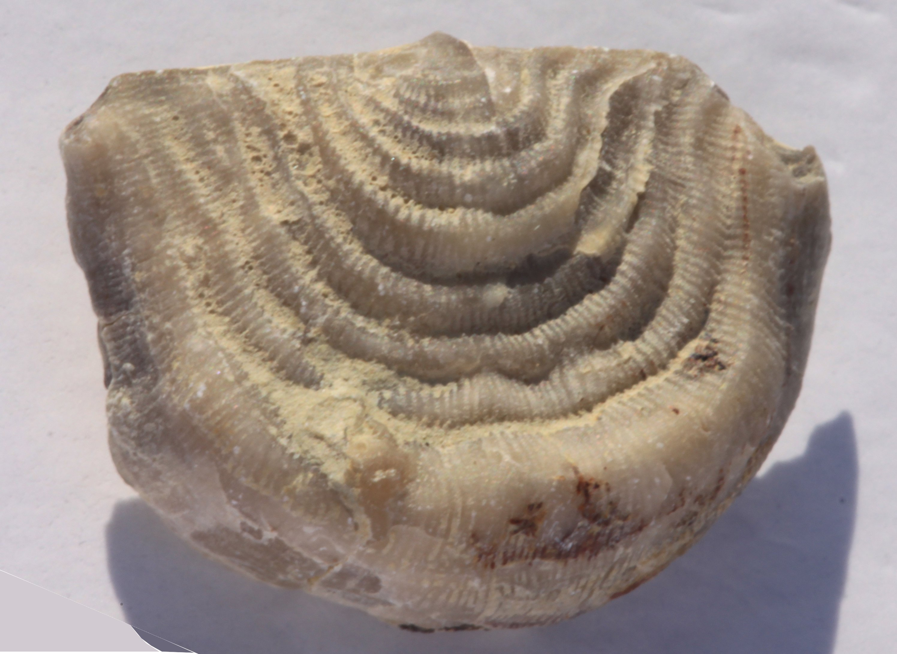 see earlier upload